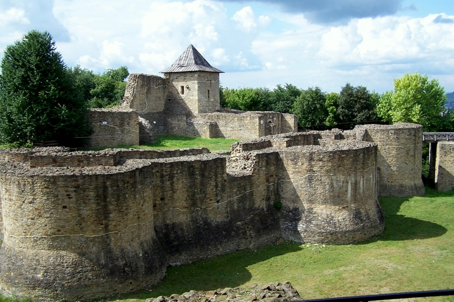 Seat Fortress of Suceava – the eastern part.